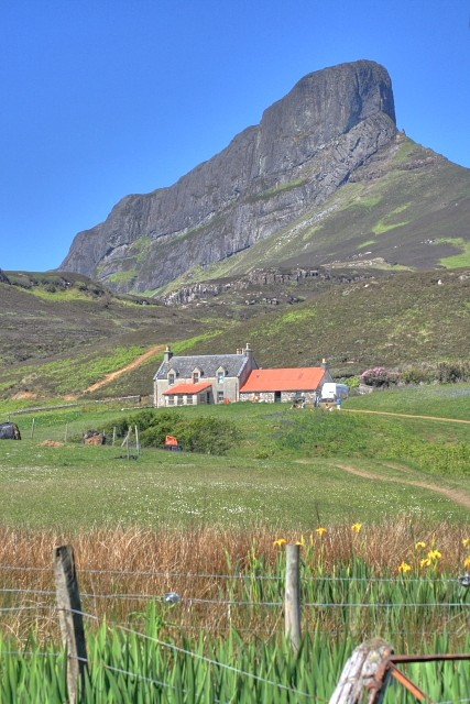 View of Galmisdale and An Sgurr Taken at the exit to the woods on the climb from Galmisdale Point.